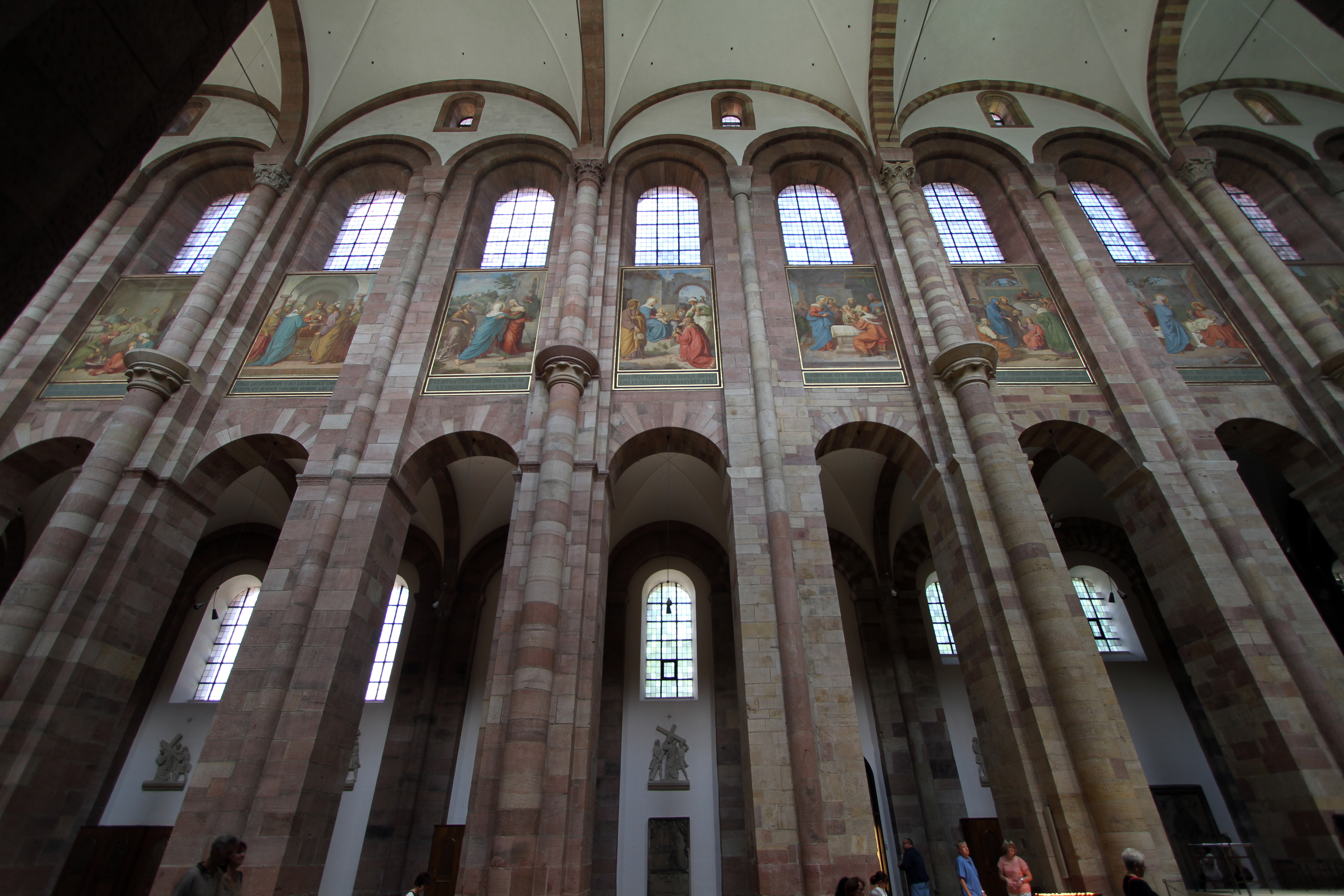 Speyer cathedral